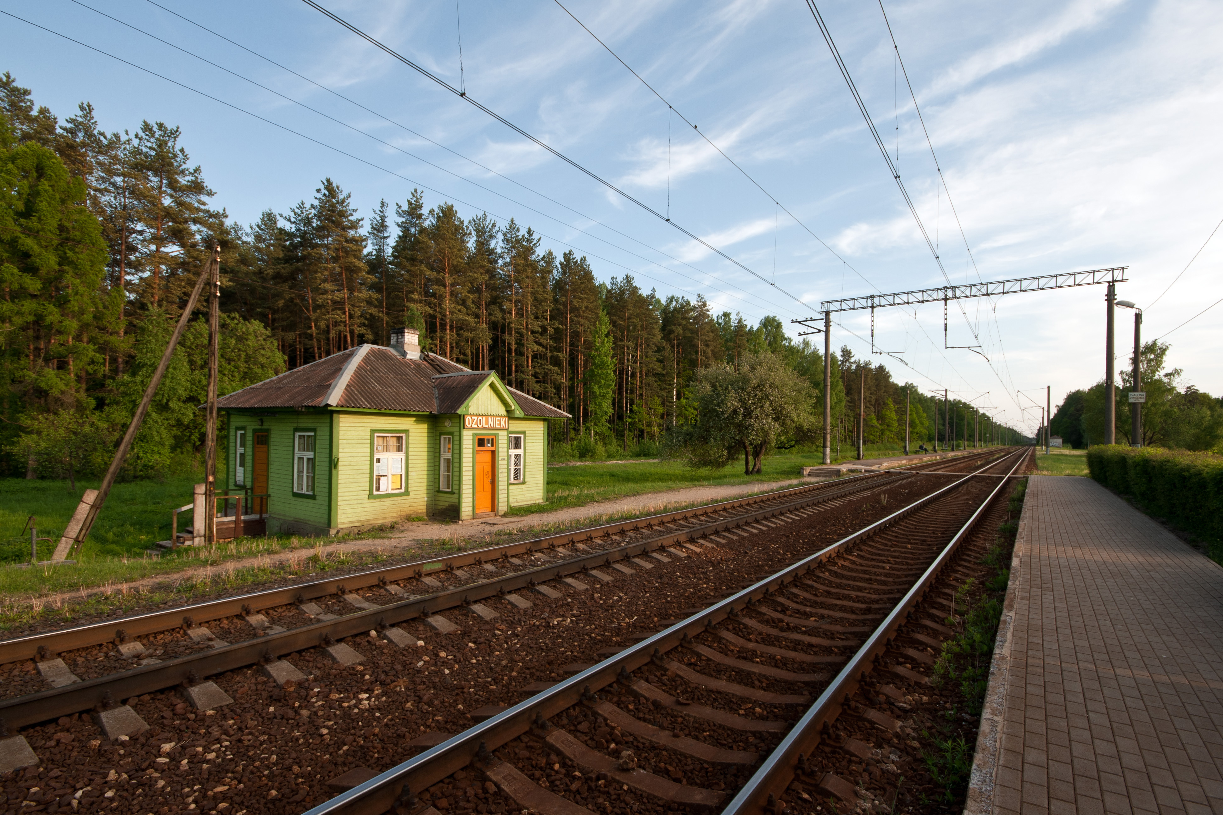 Ozolnieki train station